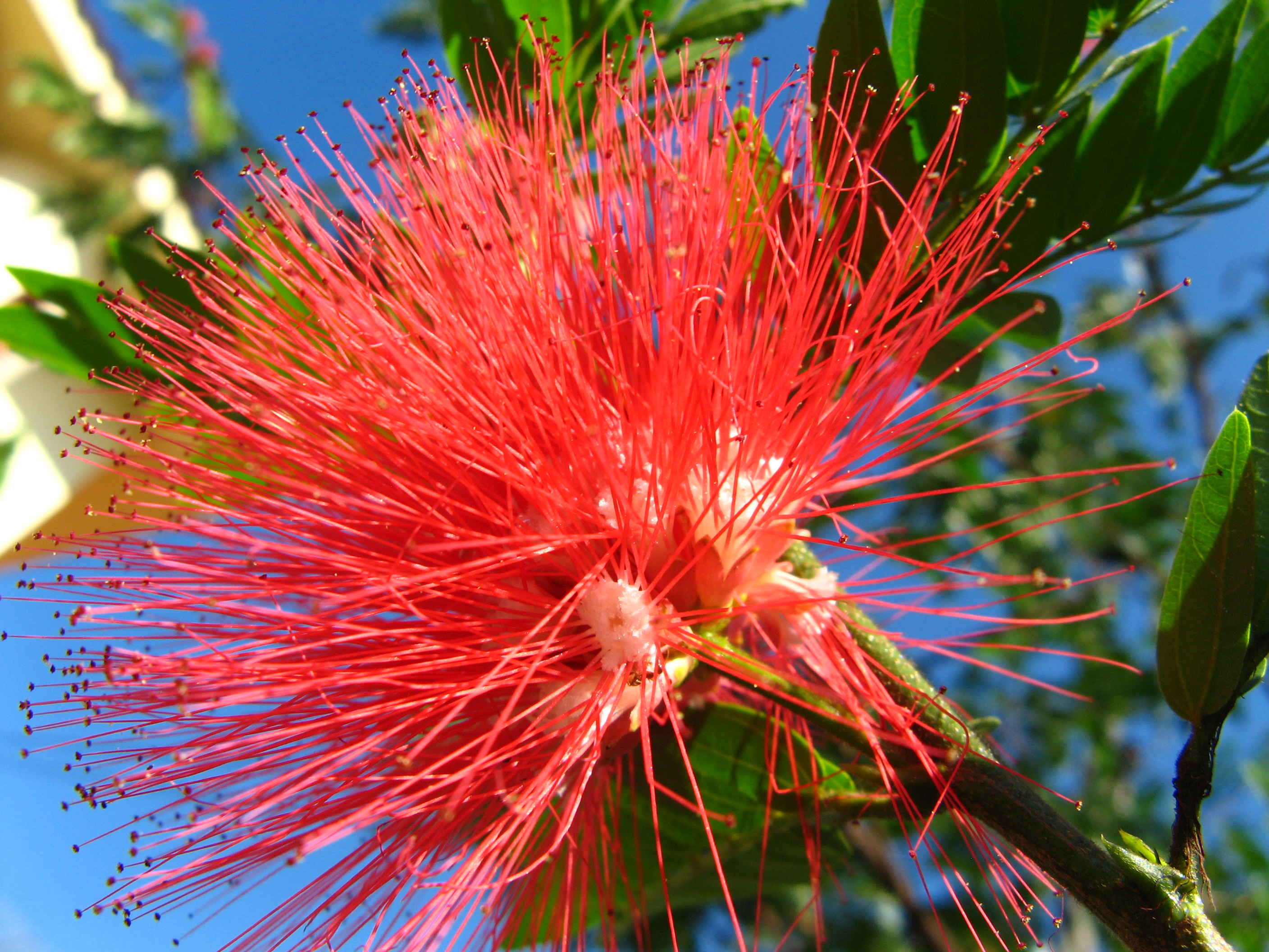 Sao Paulo Brazil (Calliandra dysantha), flower symbol of the Brazilian Savannah, Mimosaceae/Mimosa".